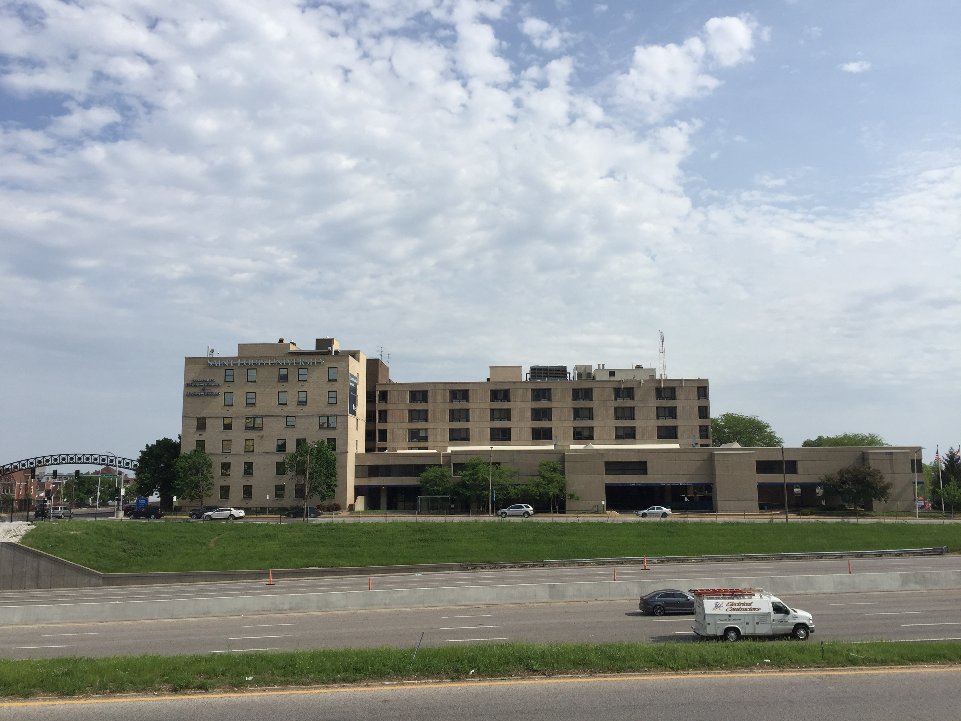 Saint Louis University College for Public Health and Social Justice